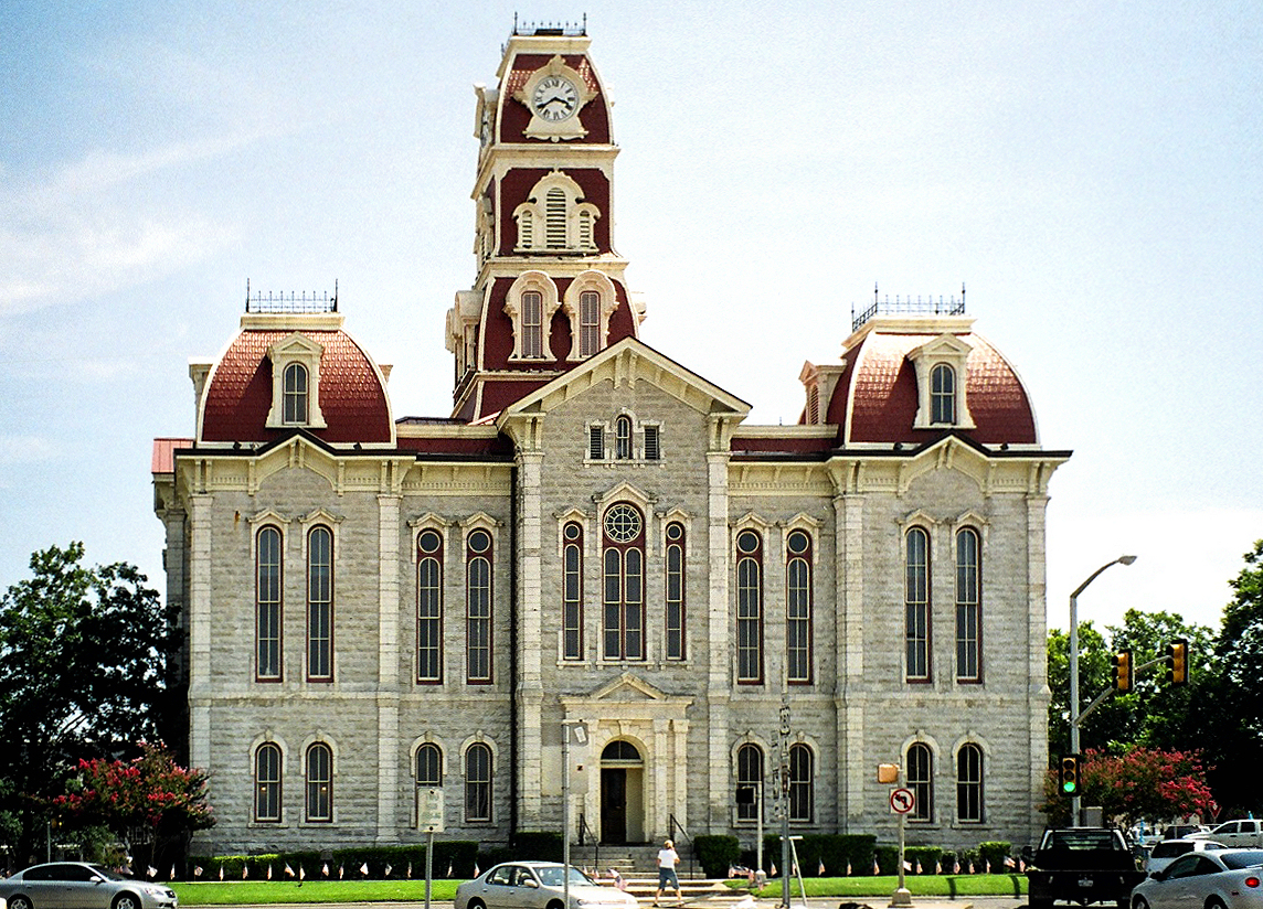 The Parker County Courthouse in Weatherford, Texas, United States. The courthouse was designated a Recorded Texas Historic Landmark in 1965 and listed on the National Register of Historic Places on June 21, 1971.